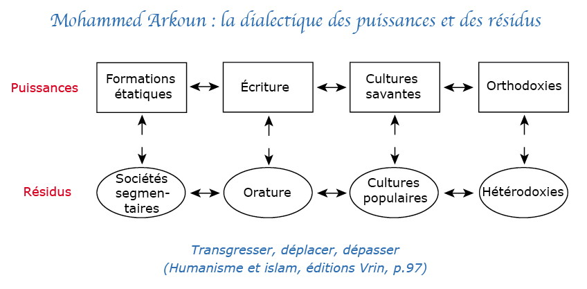 The dialectic of powers and remainders according to Mohammed Arkoun